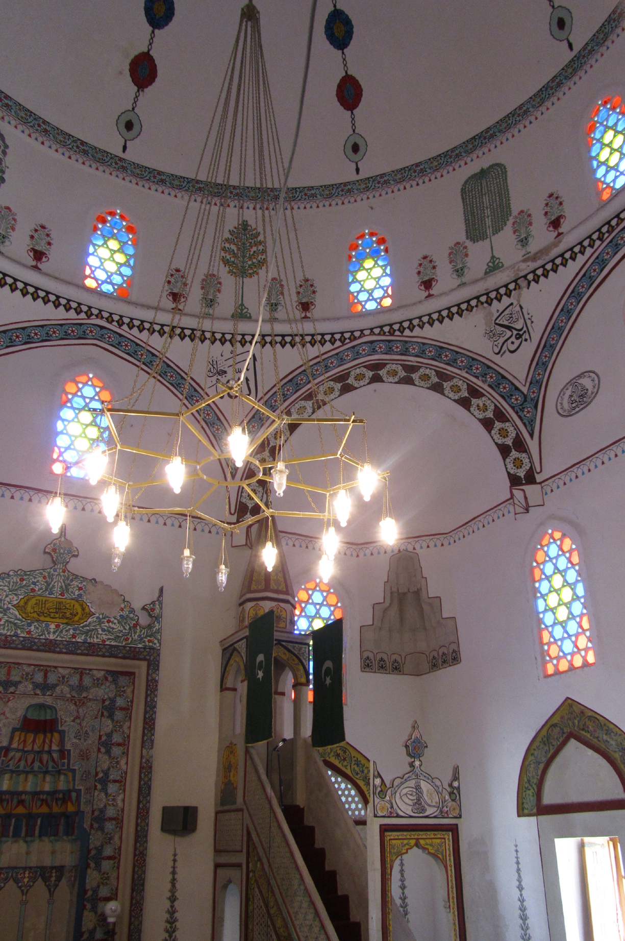 Koski Mehmed Pasha Mosque in Mostar, built in 1617 / 1618, central hall